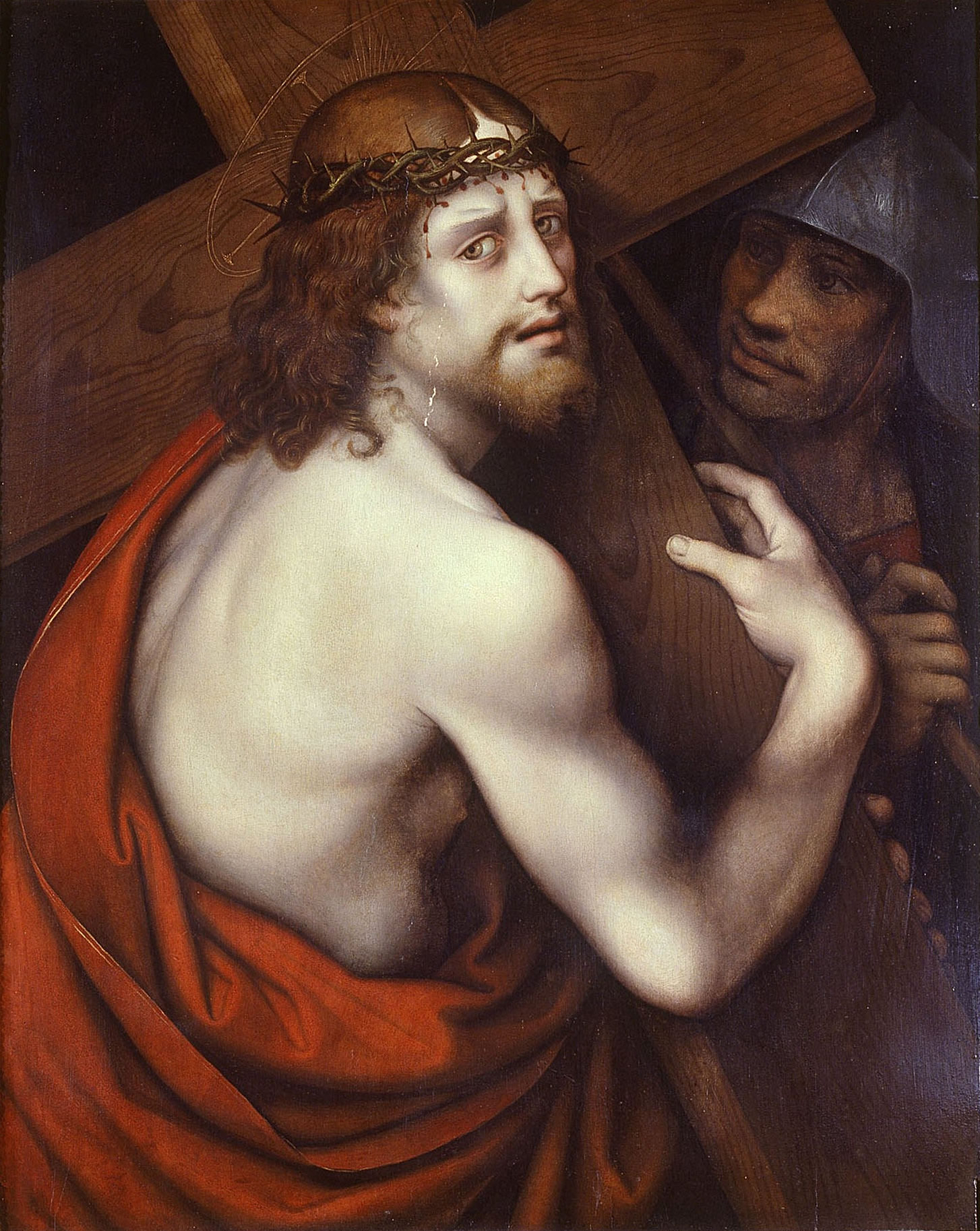 Christ Carrying the Cross. Giovan Pietro Rizzoli detto il Giampietrino. Google Cultural Institute. Oil on panel. w59 x h74 cm. Museo Diocesano Milano.